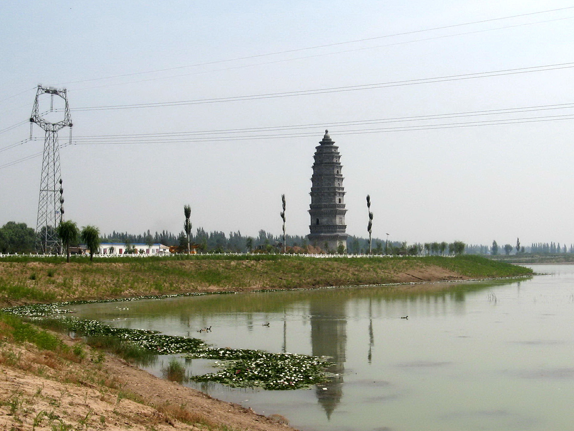 Modaohe Wetland Park, Huairen, Shanxi, China中文（中国大陆）: 山西省怀仁县磨道河湿地公园